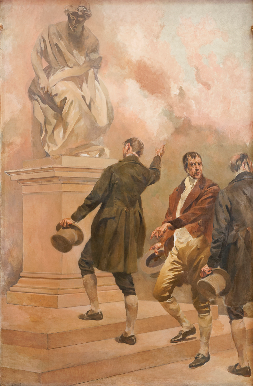 Manuel Fernandes Tomás, Manuel Borges Carneiro, and Joaquim António de Aguiar, in a 1926 painting by Columbano Bordalo Pinheiro for the Palace of Saint Benedict (Portuguese Parliament), Lisbon, Portugal.